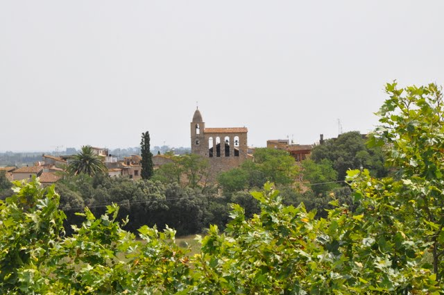 A view of Ventalló and its church, a small village situated in the Emporda region, taken from rural house of Can Xicu Menut, in Masos de Ventalló